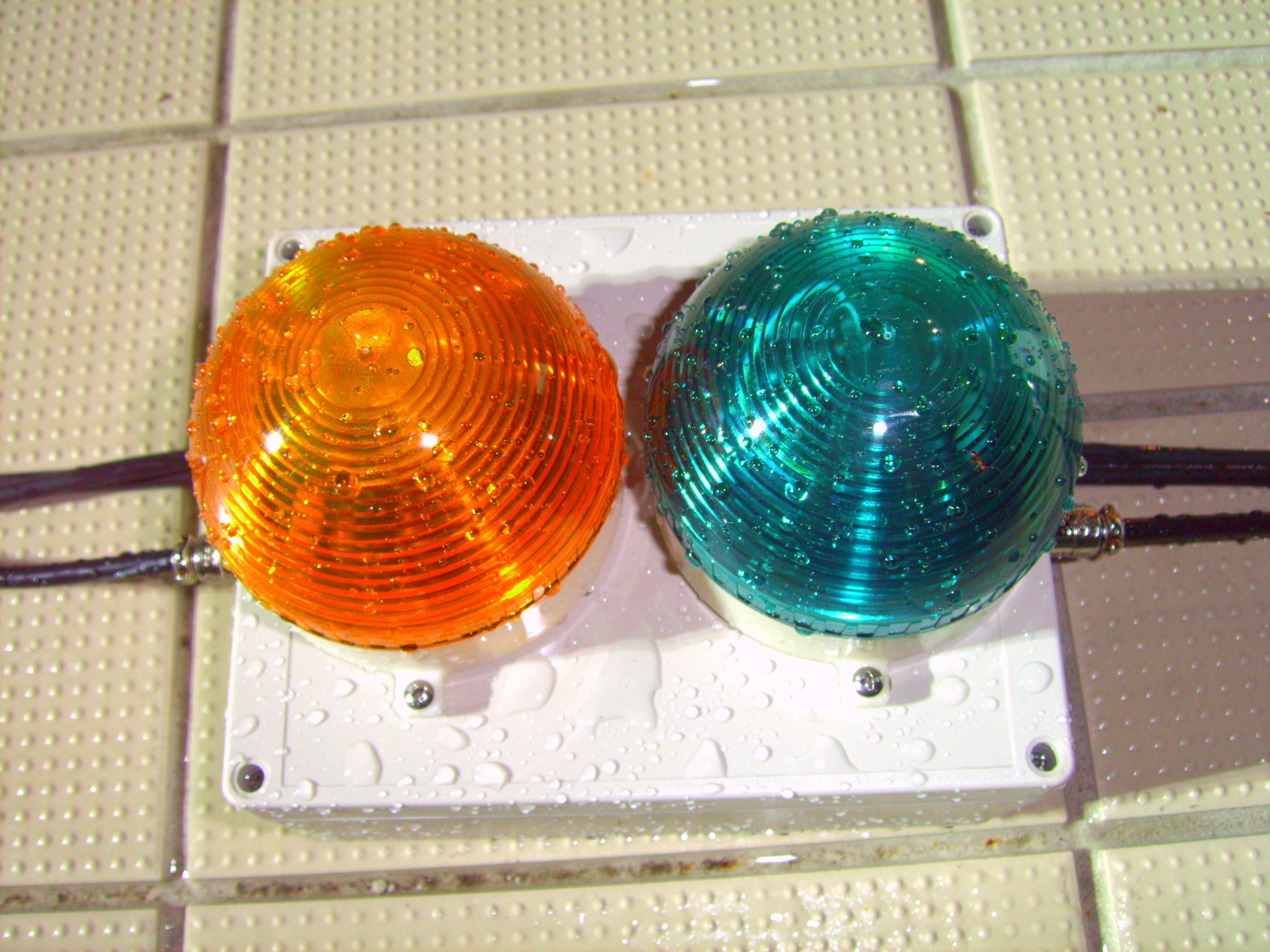 2007 World Deaf Swimming Championships: Indication Lights at side of swimming pool.